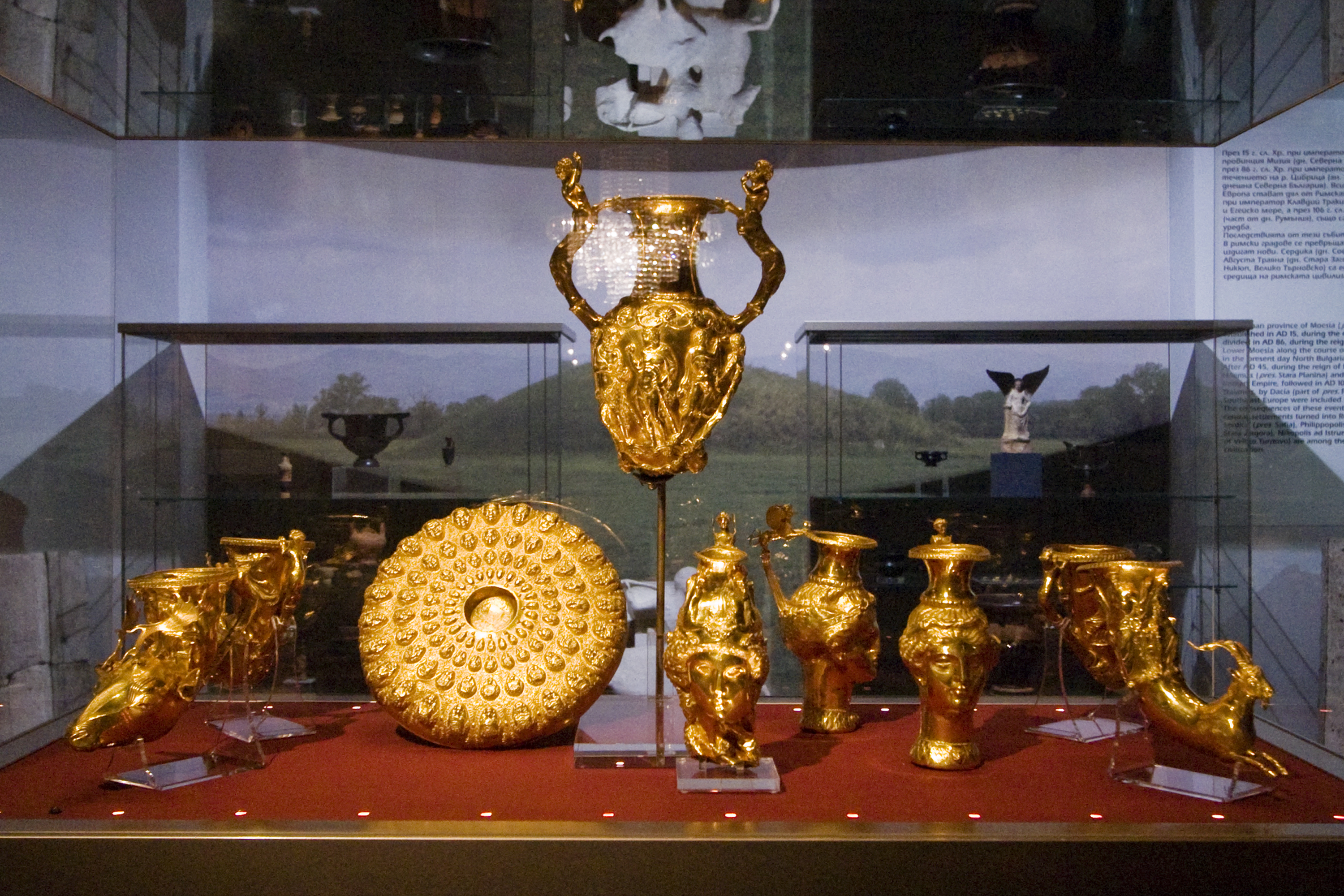 The Panagyurishte Treasure (Панагюрско златно съкровище) is a Thracian treasure discovered in 1949 two kilometres south of the town of Panagyurishte, Bulgaria. It consists of nine gold vessels (a phiale, an amphora and seven rhytons) with total weight of 6.164 kg of 23-karat gold. All of the objects are richly and skilfully decorated with scenes of Thracian myths, customs and life. The treasure is dated to the 4th-3rd centuries BC, and is thought to have been used as a royal ceremonial set, possibly by a Thracian kings. The big amphora has handles shaped as centaurs, and the openings for pouring wine represent Negro heads. Inbetween those two opinings, the amphora is decorated with a scene of Hercules fighting a snake. Three of the seven rhytons are jugs with Amazon heads and carry scenes and heroes from Greek mythology, and the phiale carries inscriptions giving its weight in Greek drachmae and Persian darics. As one of the best known surviving artifacts of Thracian culture, the treasure has been displayed at various museums around the world. When not on a tour, the treasure is the centerpiece of the Thracian art collection of the National Museum of History in Sofia.